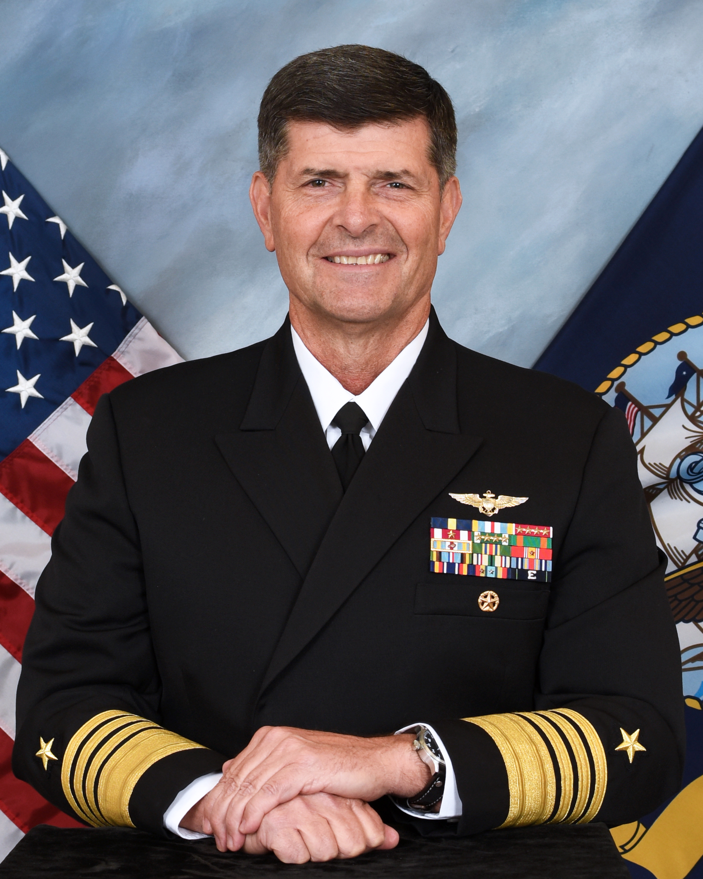 VCNO Moran